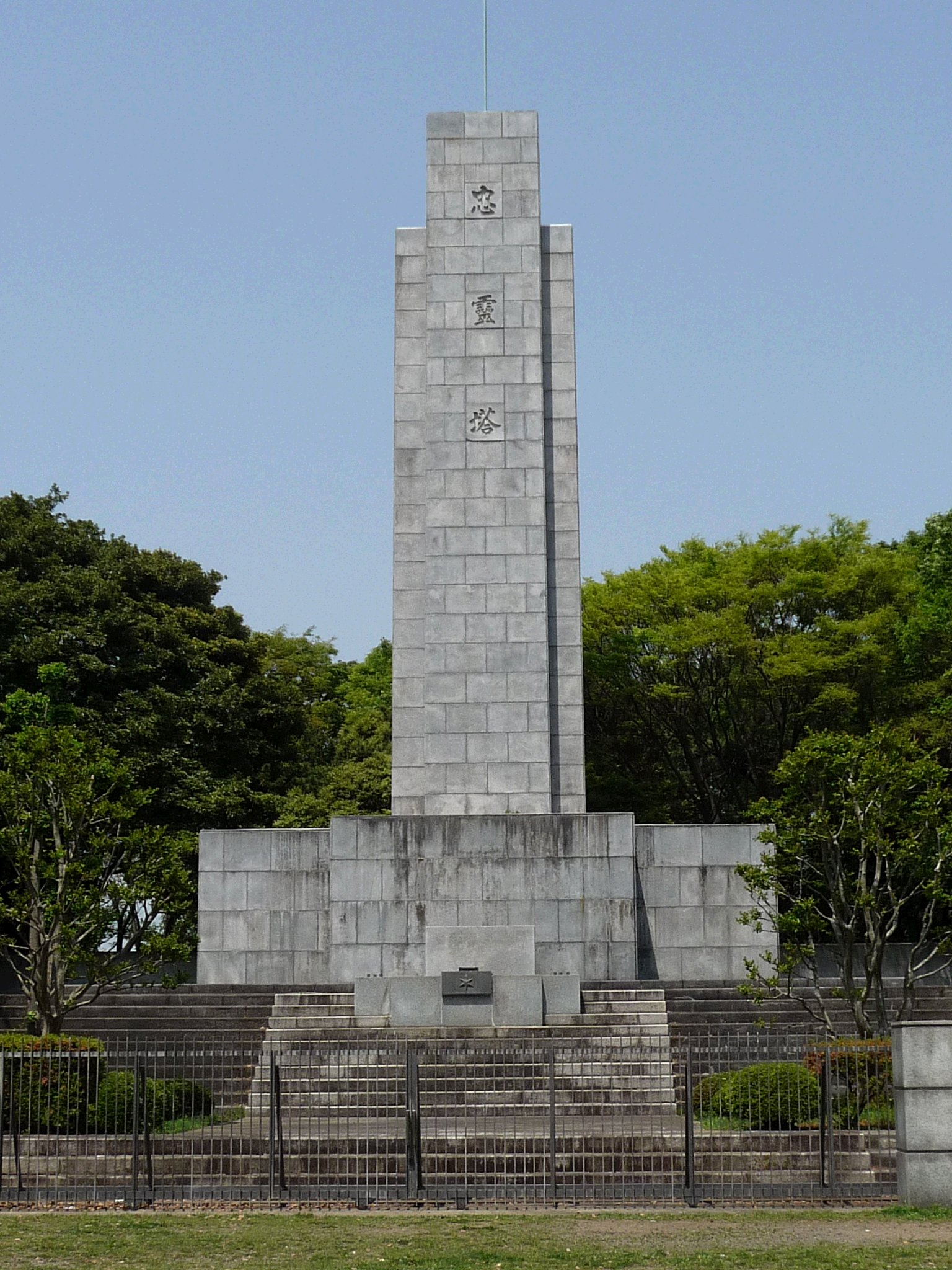 The Memorial towers for soul of Soldier allegiance, Chiureitou (忠霊塔, lit. Royal soul tower) Chiba pref. Japan, completed in 1954 April. Photo taken on May 2, 2009. There are a number of this kind of tower in Japan, and some outside of Japan.